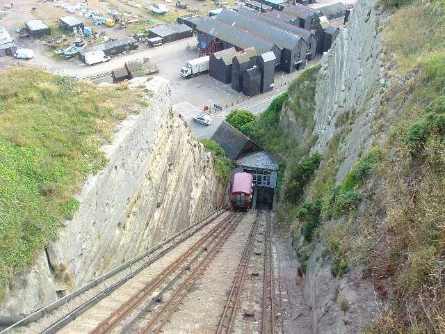 The East Hill Cliff Railway at Hasting, East Sussex, England. For more information see the Wikipedia article East Hill Cliff Railway .